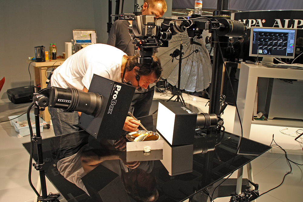 demonstration of food photography at the Photokina 2008 exhibition in Cologne, Germany